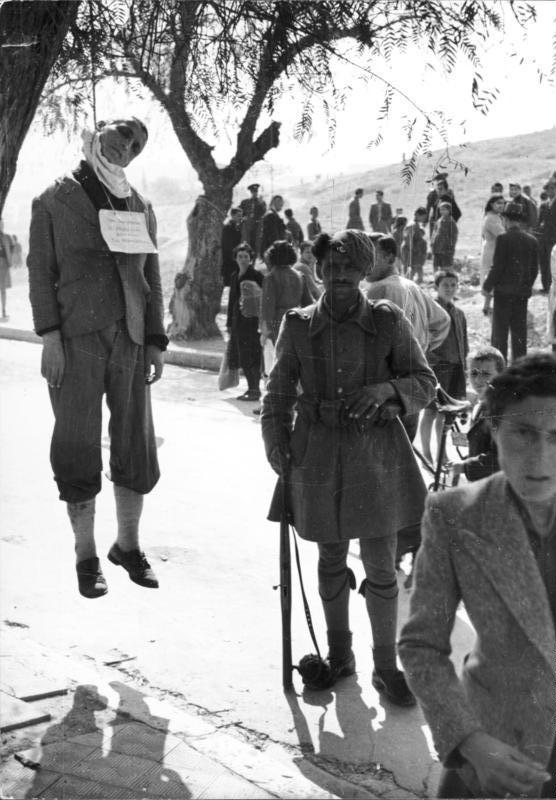 Information added by Wikimedia users.